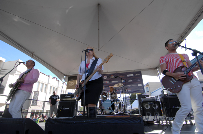 Imperial Teen performing at the 2007 Folsom Street Fair, September 30th 2007. Photo by Neil Motteram (user:Palnu) licensed under a Creative Commons Attribution license.